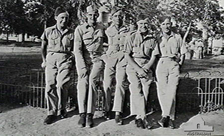 AWM caption : Ishmalia, Egypt. C. 1942-06. Members of No. 458 Squadron RAAF. Left to right: 400357 Sergeant (Sgt) M. W. Shapir US S/Sergeant J. R. Milleron 404635 Sgt E. A. Jones 402813 Sgt L. D. Watson 404306 Sgt A. A. Taylor